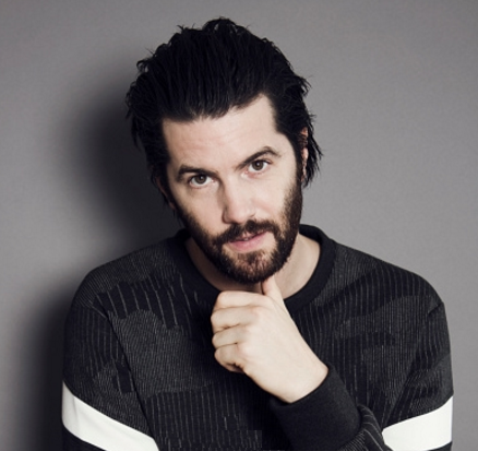 Jim Sturgess